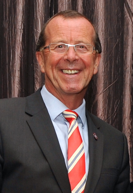 U.S. Secretary of State John Kerry meets with UN Special Representative of the Secretary-General and head of the UN Organization Stabilization Mission in the DRC Martin Kobler during a visit to Kinshasa, Democratic Republic of Congo, on May 3. 2014. [State Department photo/ Public Domain]